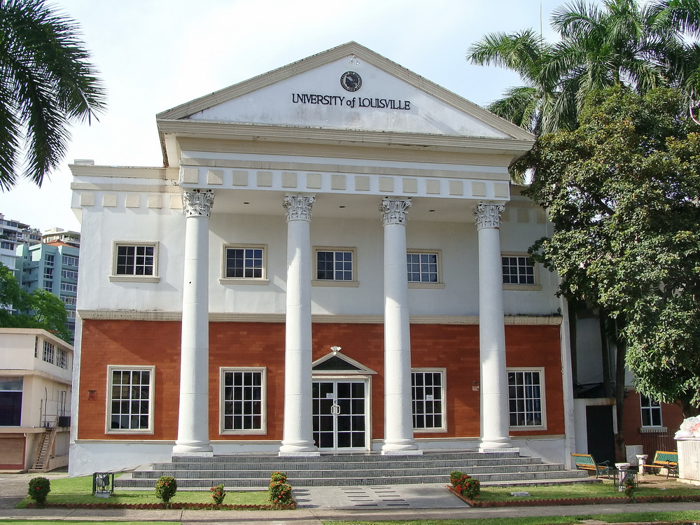 University of Louiville in Panama city